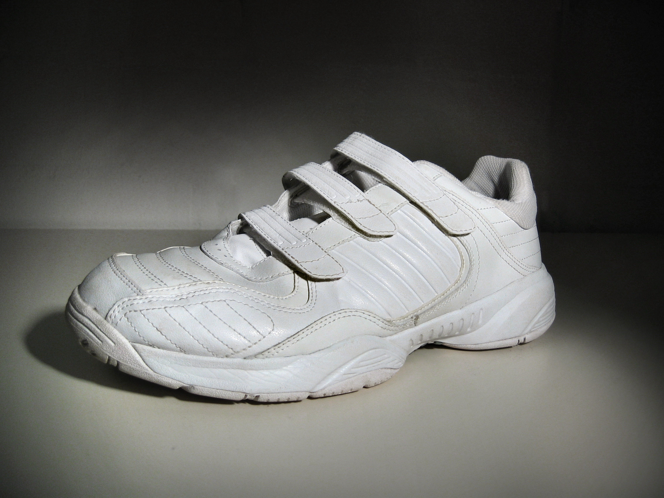 sports shoe by adidas